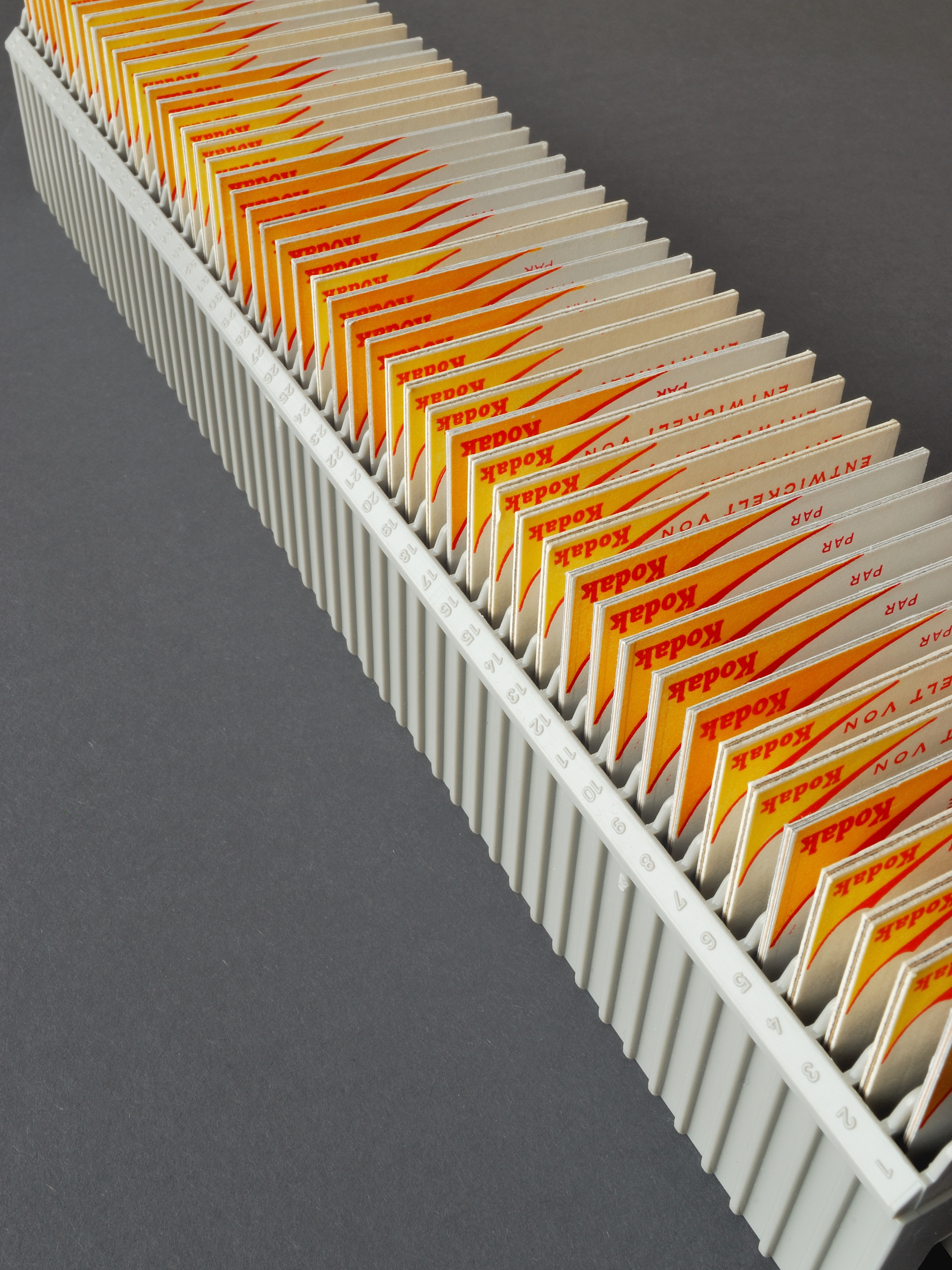 Slide tray with 50 Kodachrome slides